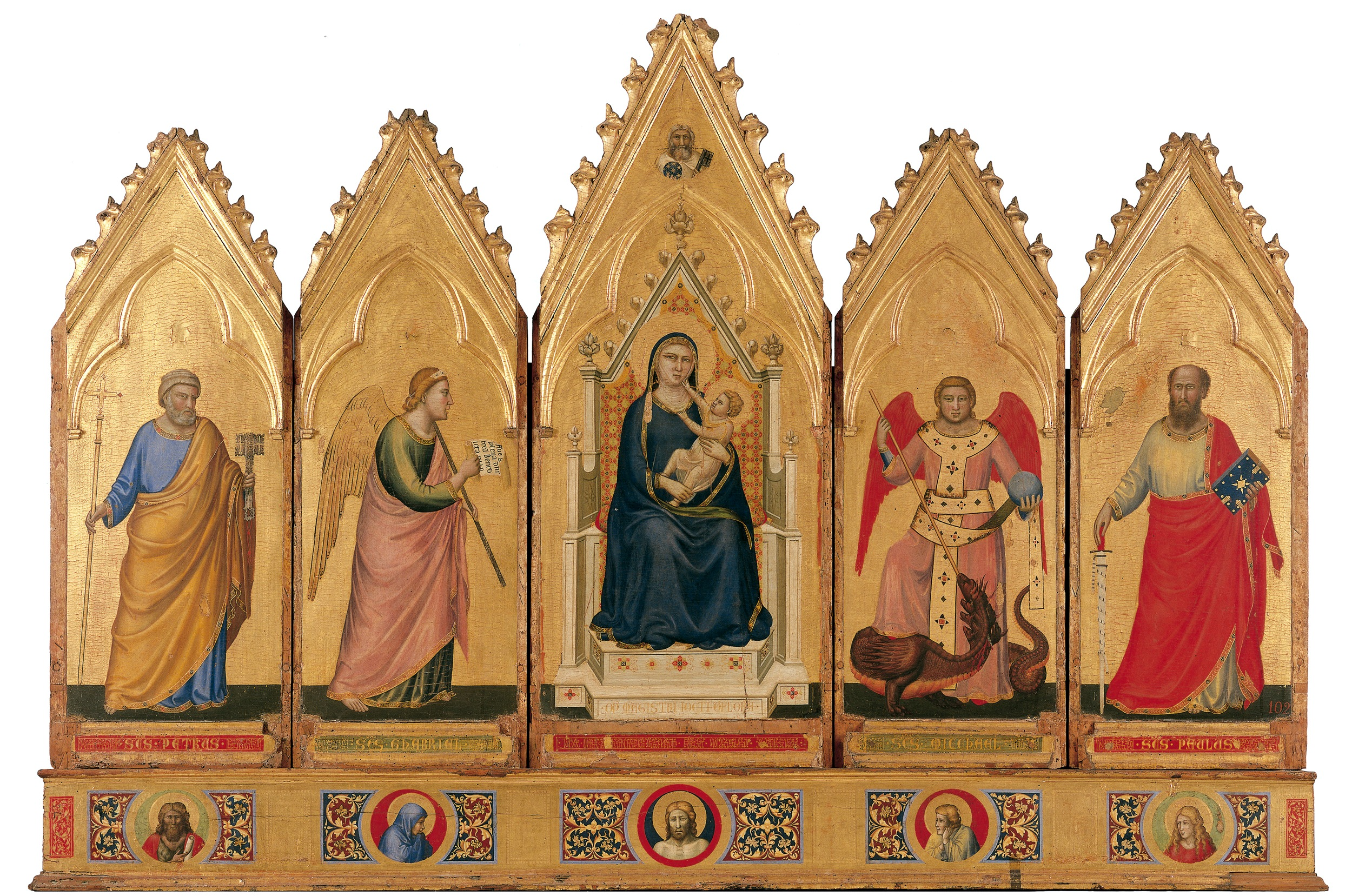 Giotto._Polyptych._1330-35._91x340cm.__Pinacoteca,_Bologna